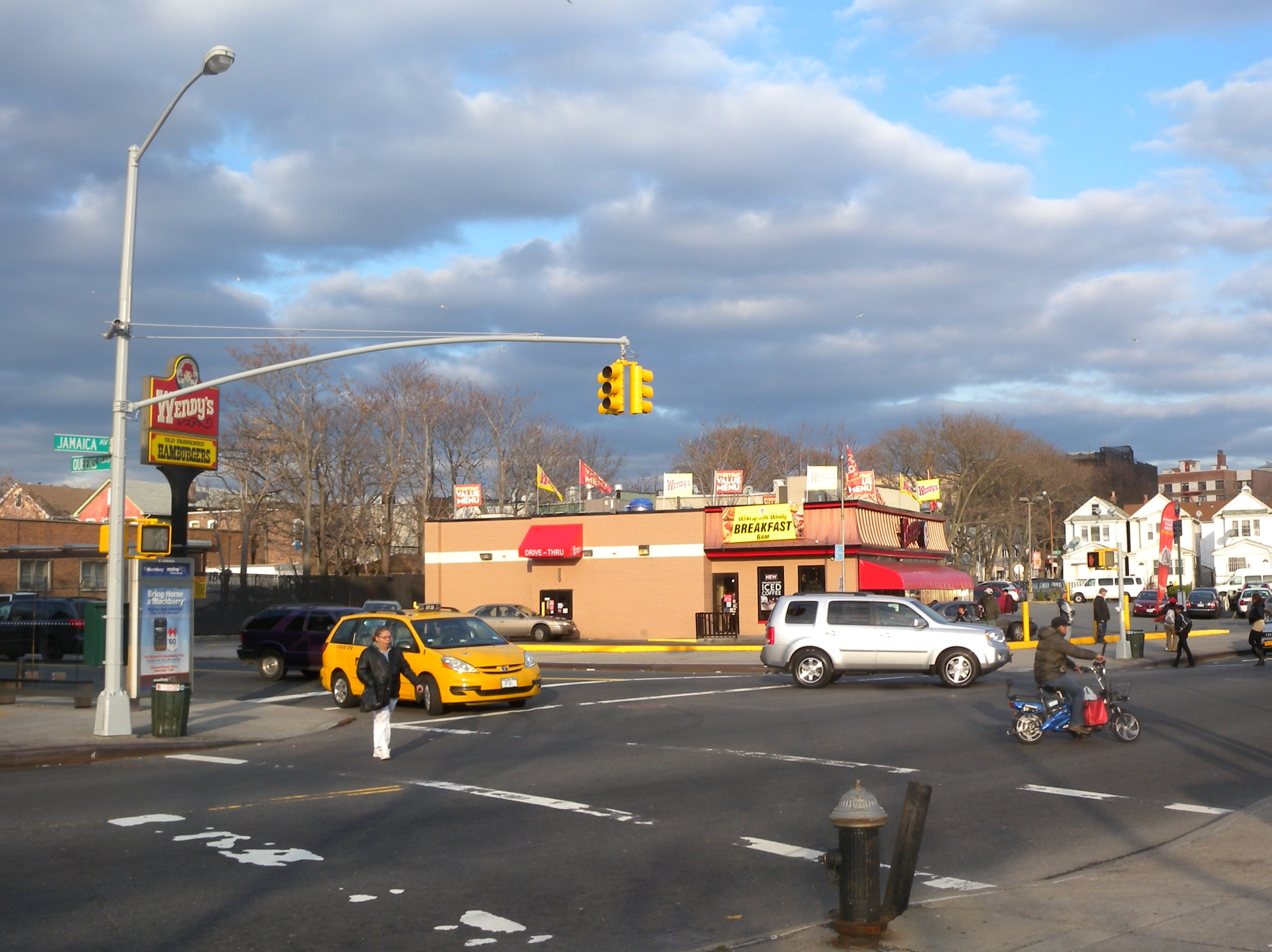 Looking northeast across Jamaica Avenue at south end of Queens Boulevard on a mostly cloudy afternoon.